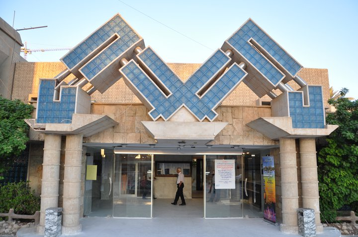 gate info